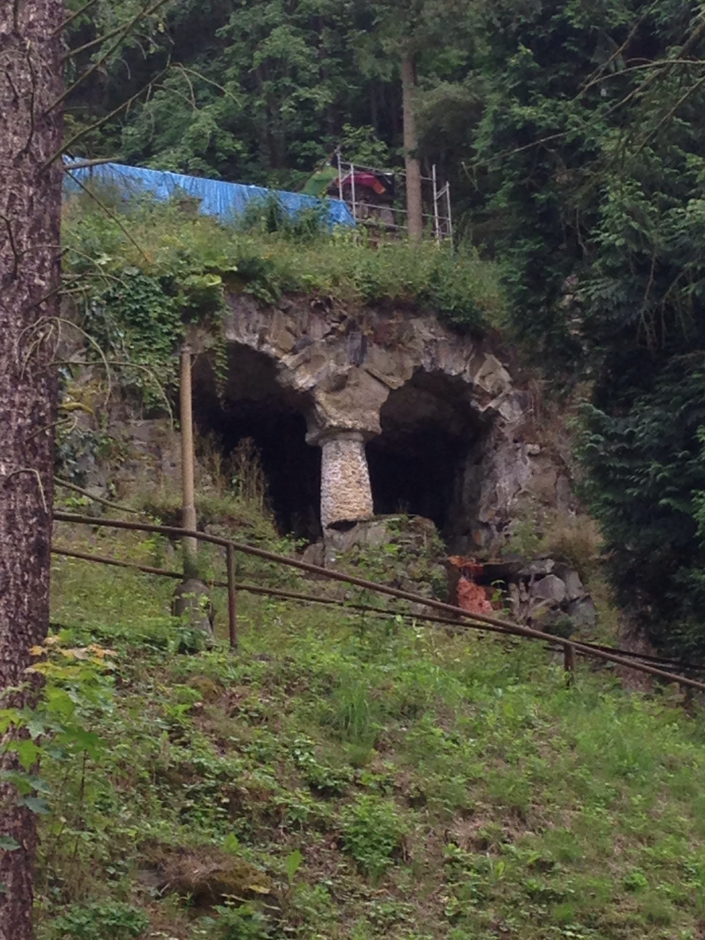 Lázně Kyselka Rudolf